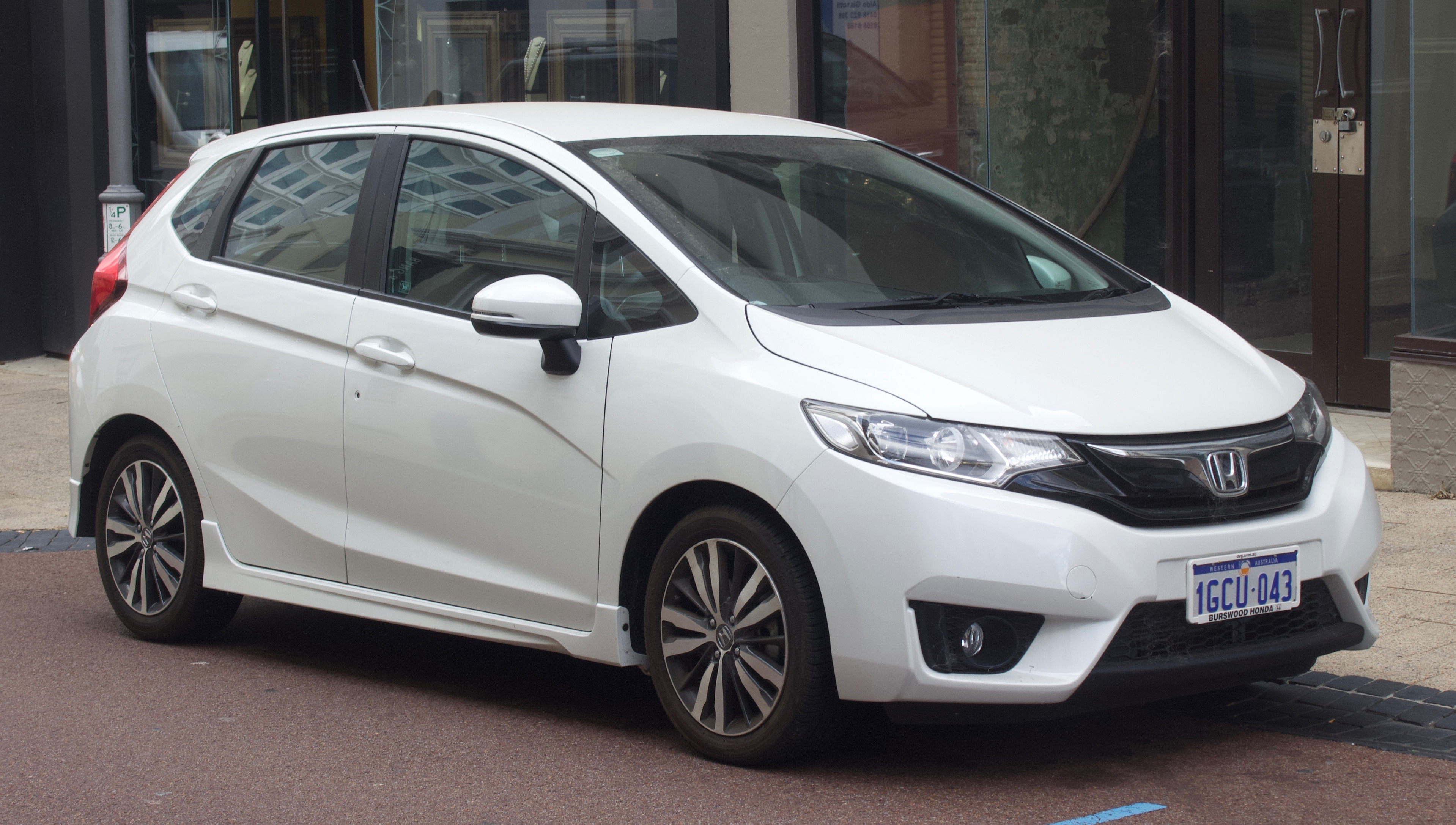 2016 Honda Jazz (GK5 MY16) VTi-L hatchback. Photographed in Perth, Western Australia, Australia.